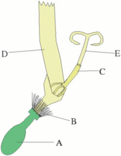 Ray floret, typical for flowers of the family Asteraceae A. ovary B. pappus C. theca D. ligule E. style with stamen